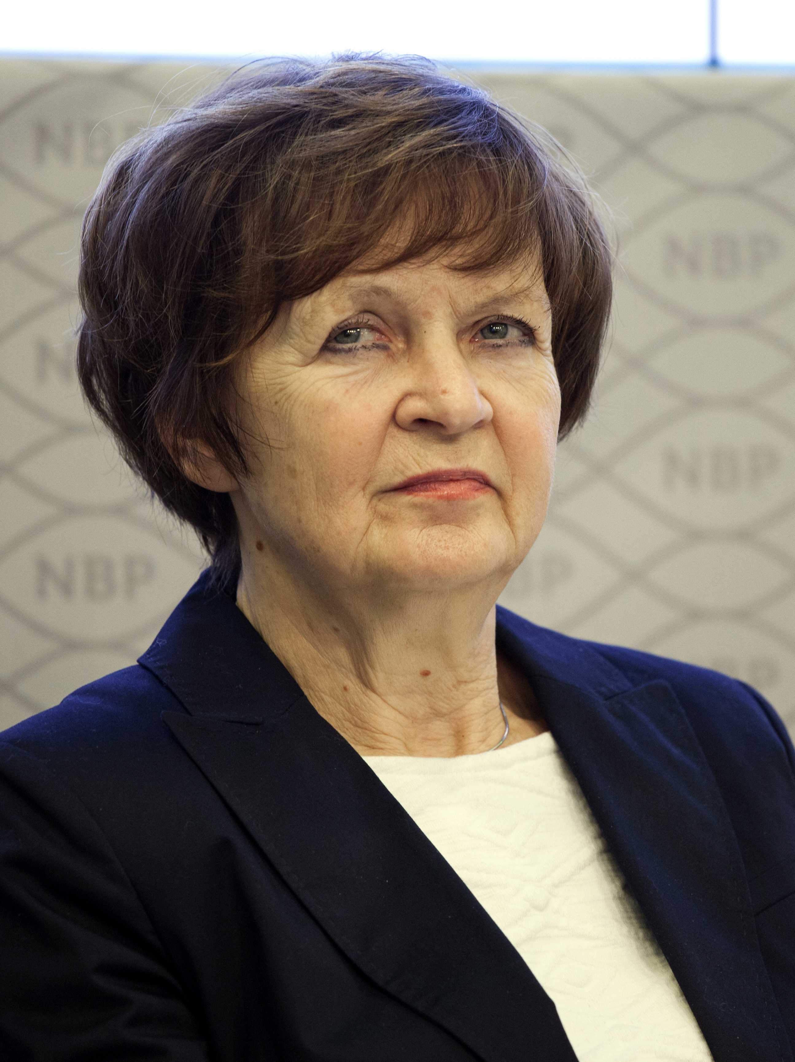 Anna Zielińska-Głębocka is a Polish politician and economist.